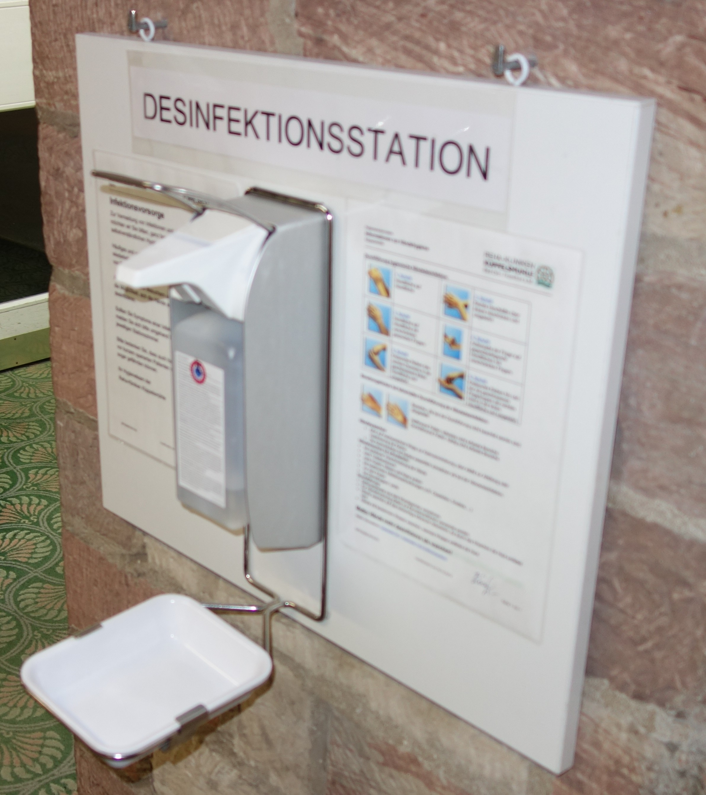 Wall mounted dispenser with hand sanitizer an "how to use"-sheet